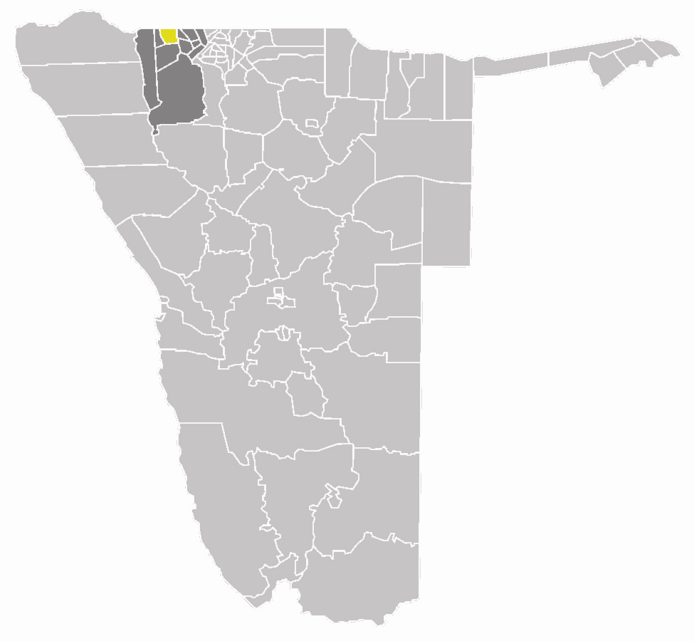 map of the Outapi constituency within the Omusati region, Namibia